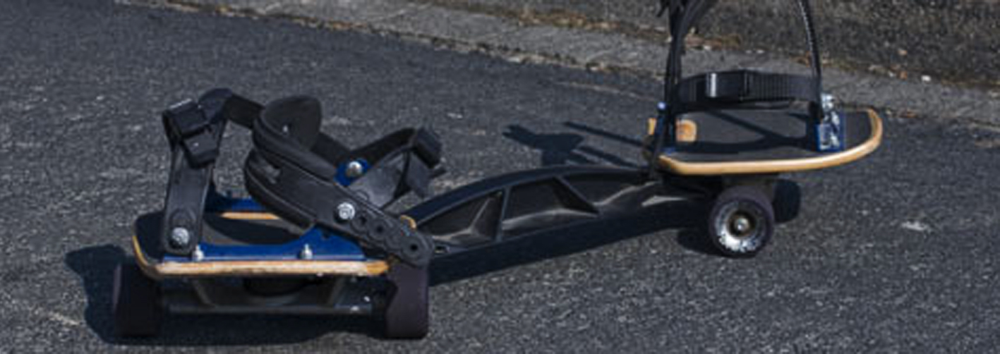 snakeboard